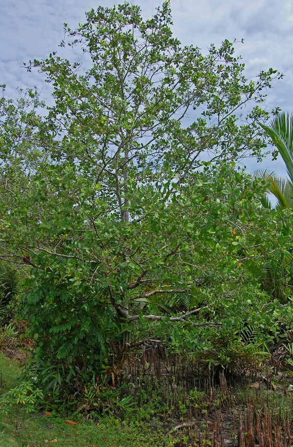 Sonneratia caseolaris habits. From Labuan Bakti, Simeulue, Indonesia.